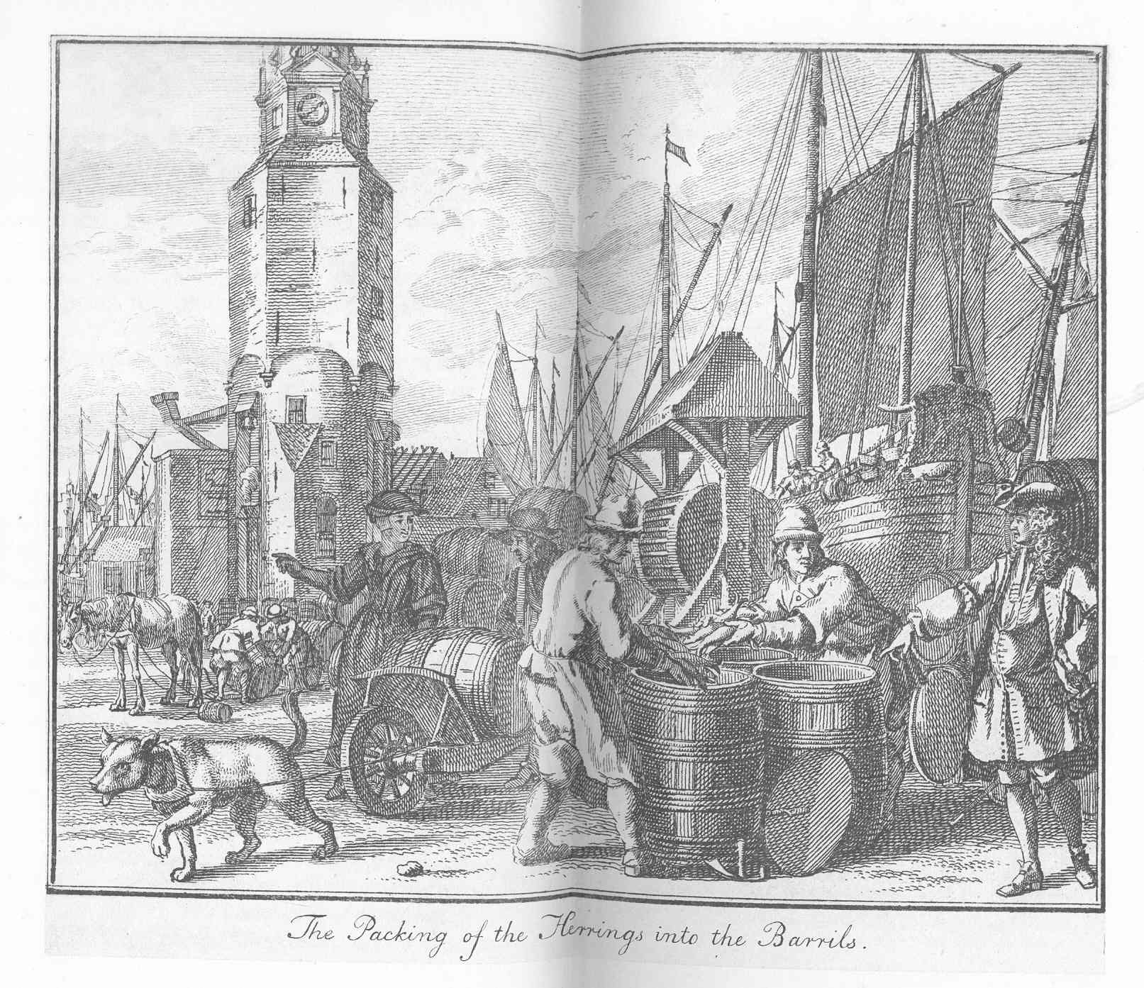 Packing of the Herrings into the Barrils Subject: Barrels, Herring industry Tag: Traditional Fisheries